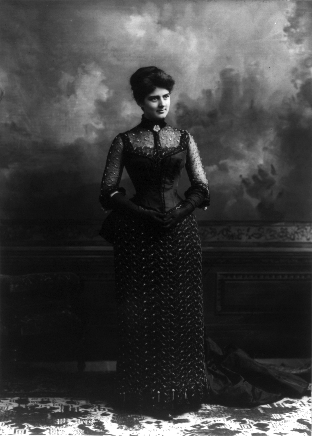 Frances Cleveland, full length portrait, standing, facing right; in formal gown